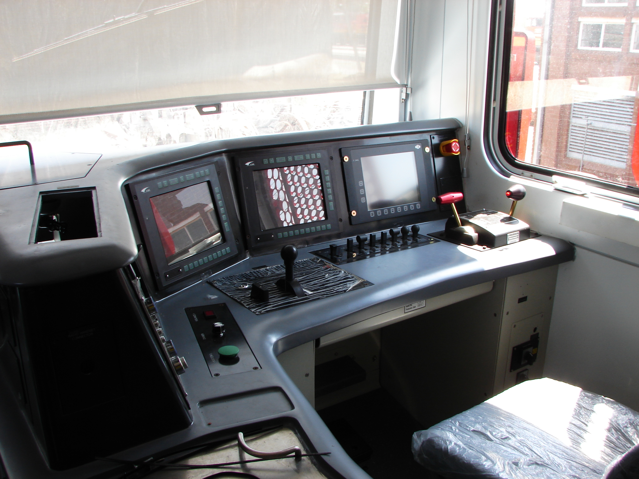 Driver's seat on TFR Class 22E no. 22-013Location: Pyramid South